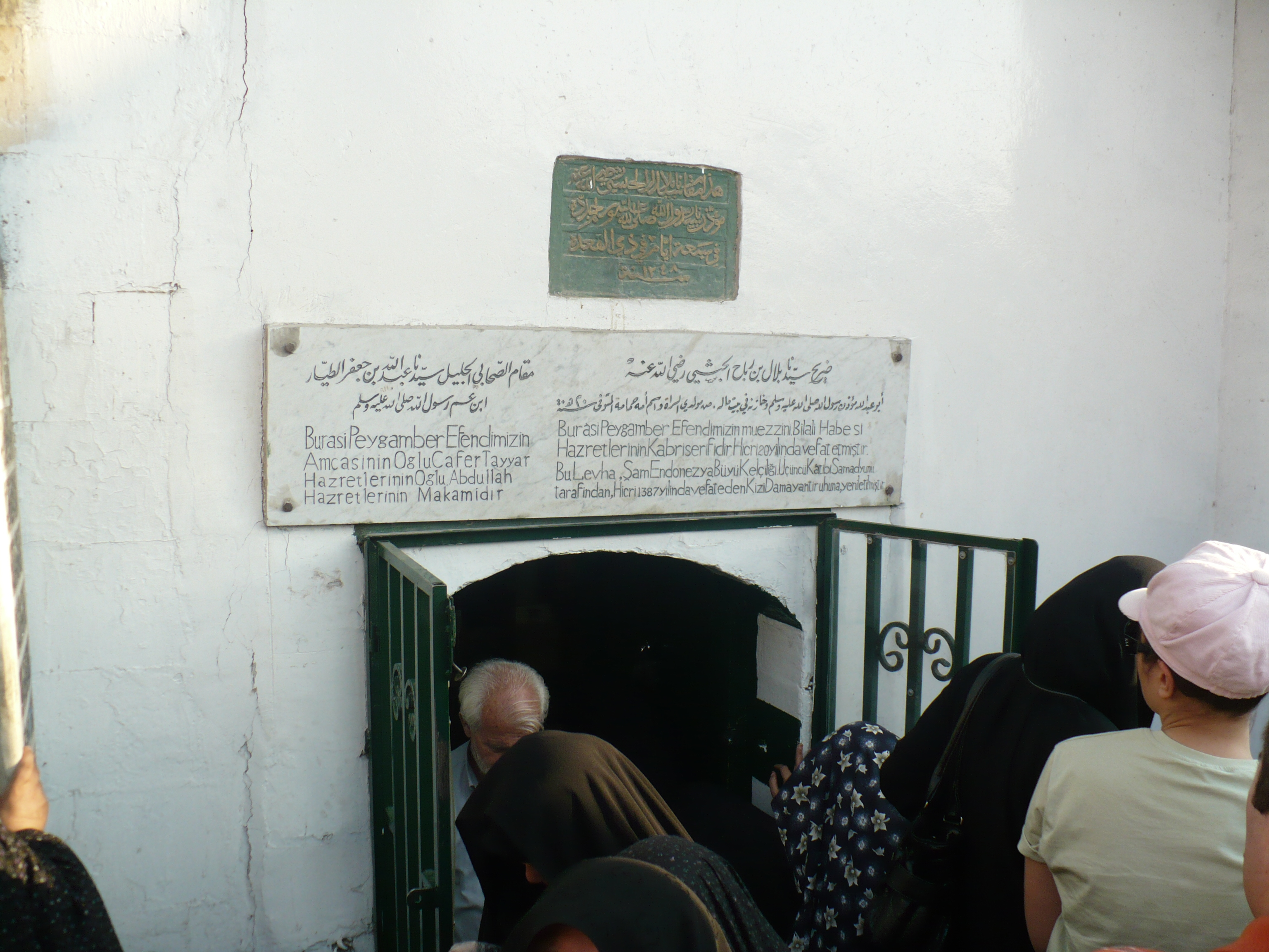 Baab Sagheer: The Gate of the Tomb of Bilal-al-Habashi (Bilal-bin-Rebah), the first Mu'adh-dhin.